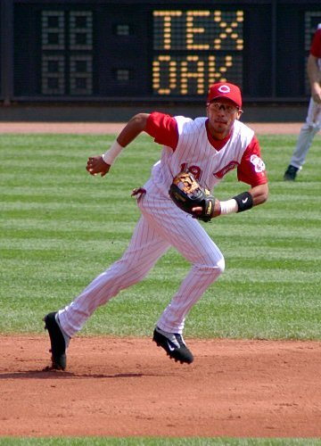 Baseball, Shortstop — Anderson Machado, Cincinnati Reds, 2004, by Rick Dikeman 01:54, 16 September 2004 . . Rdikeman . . 360×500 (44 KB)